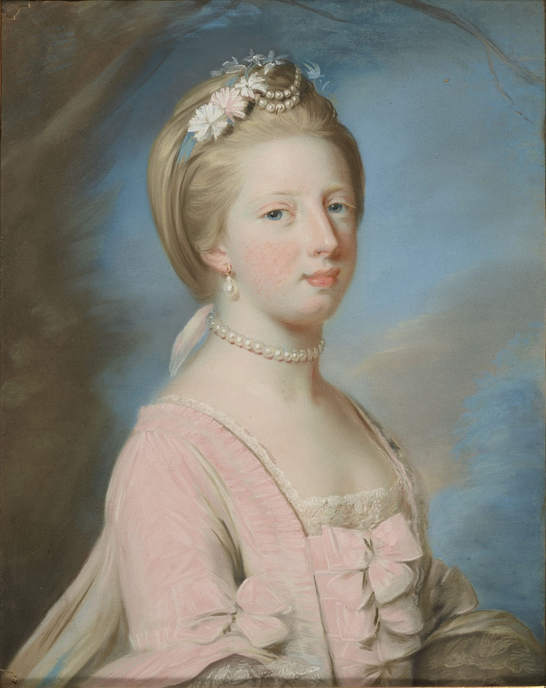 Caroline Matilda of Great Britain, Queen of Denmark and Norway